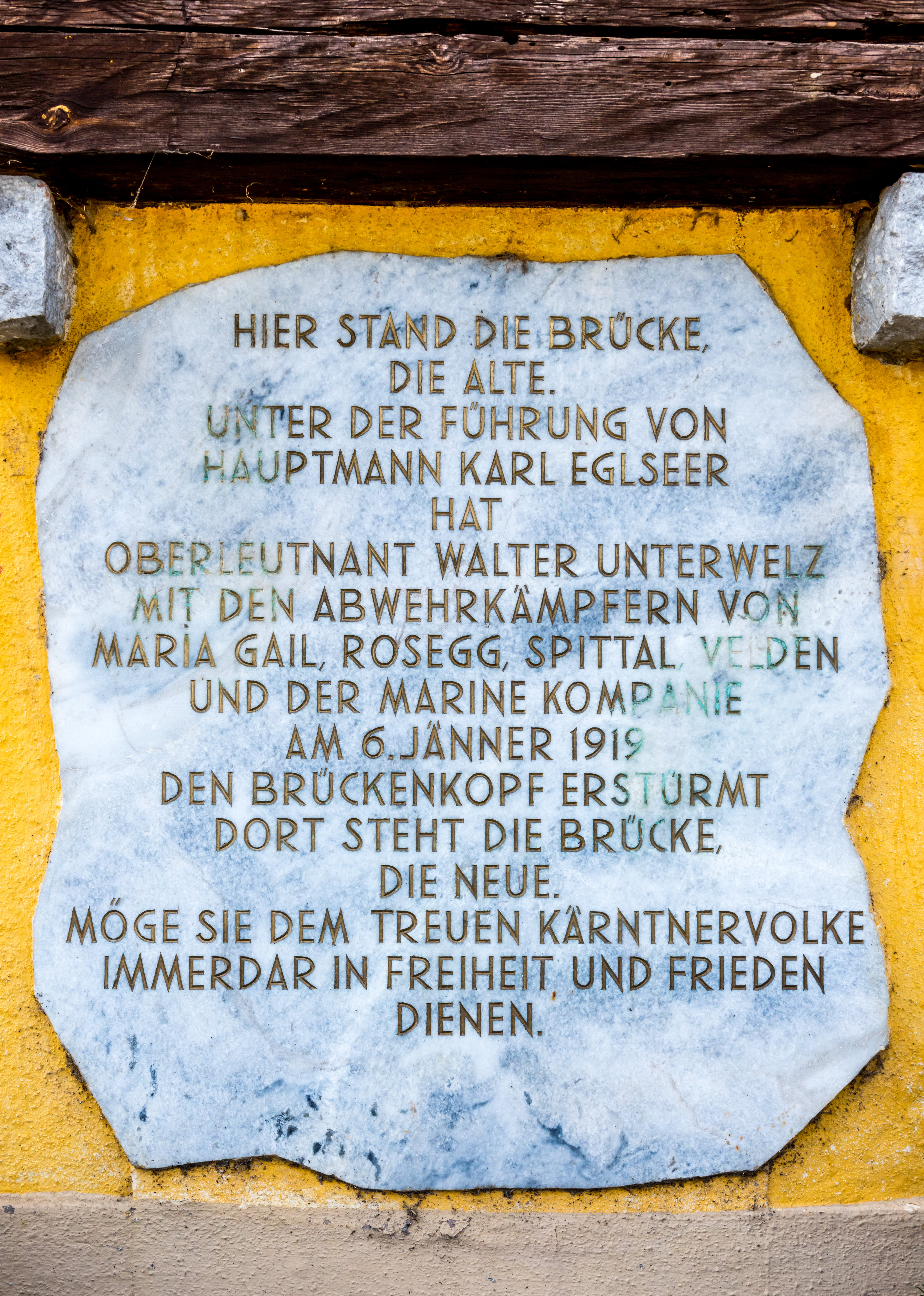 Memorial plaque for captain Eglseer and first lieutenant Walter Unterwelz on Mautweg, market town Rosegg, district Villach Land, Carinthia, Austria, EU